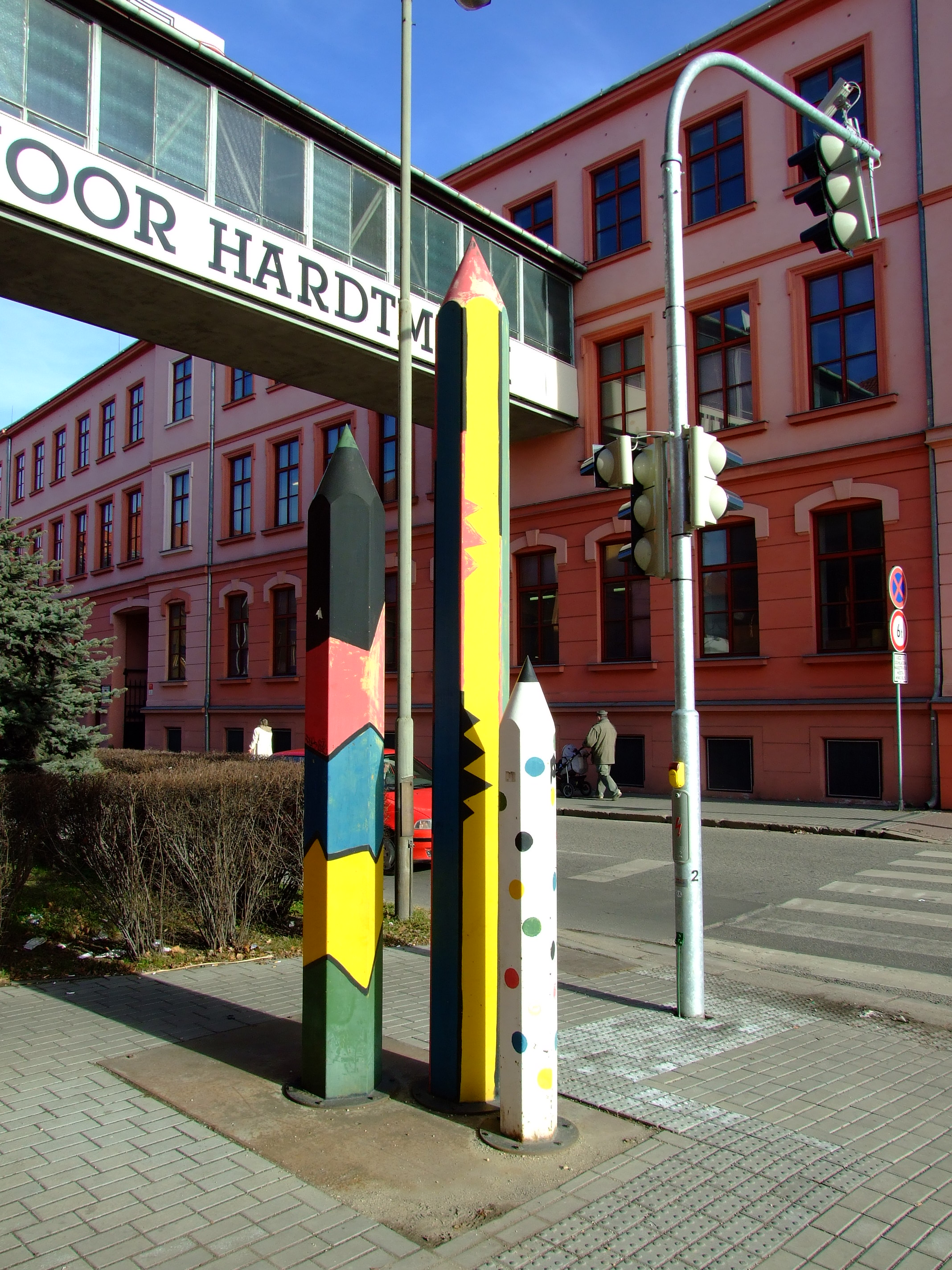 Koh-I-Noor factory, F. A. Gerstnera St, České Budějovice, Czech Republic